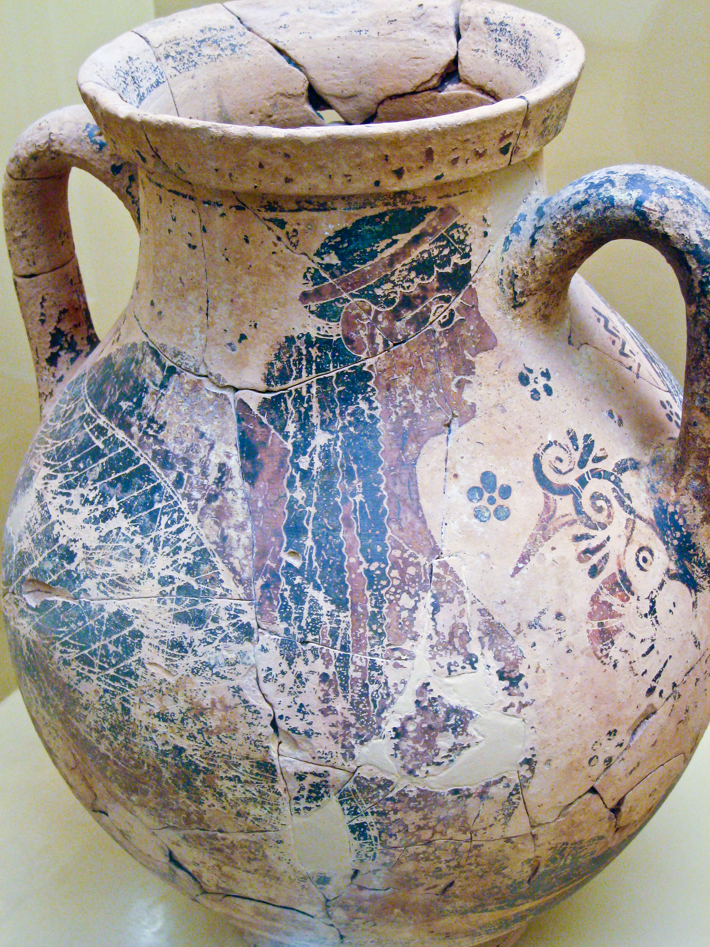 Decorated with a sphinx on either side.